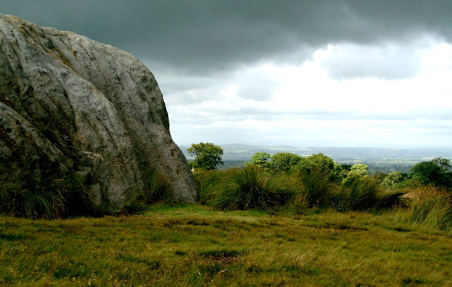 The Great Stone of Fourstones. Said to have been thrown at England in anger by the Irish giant Finn McCool, but does the grid square 6666 suggest an even darker origin?